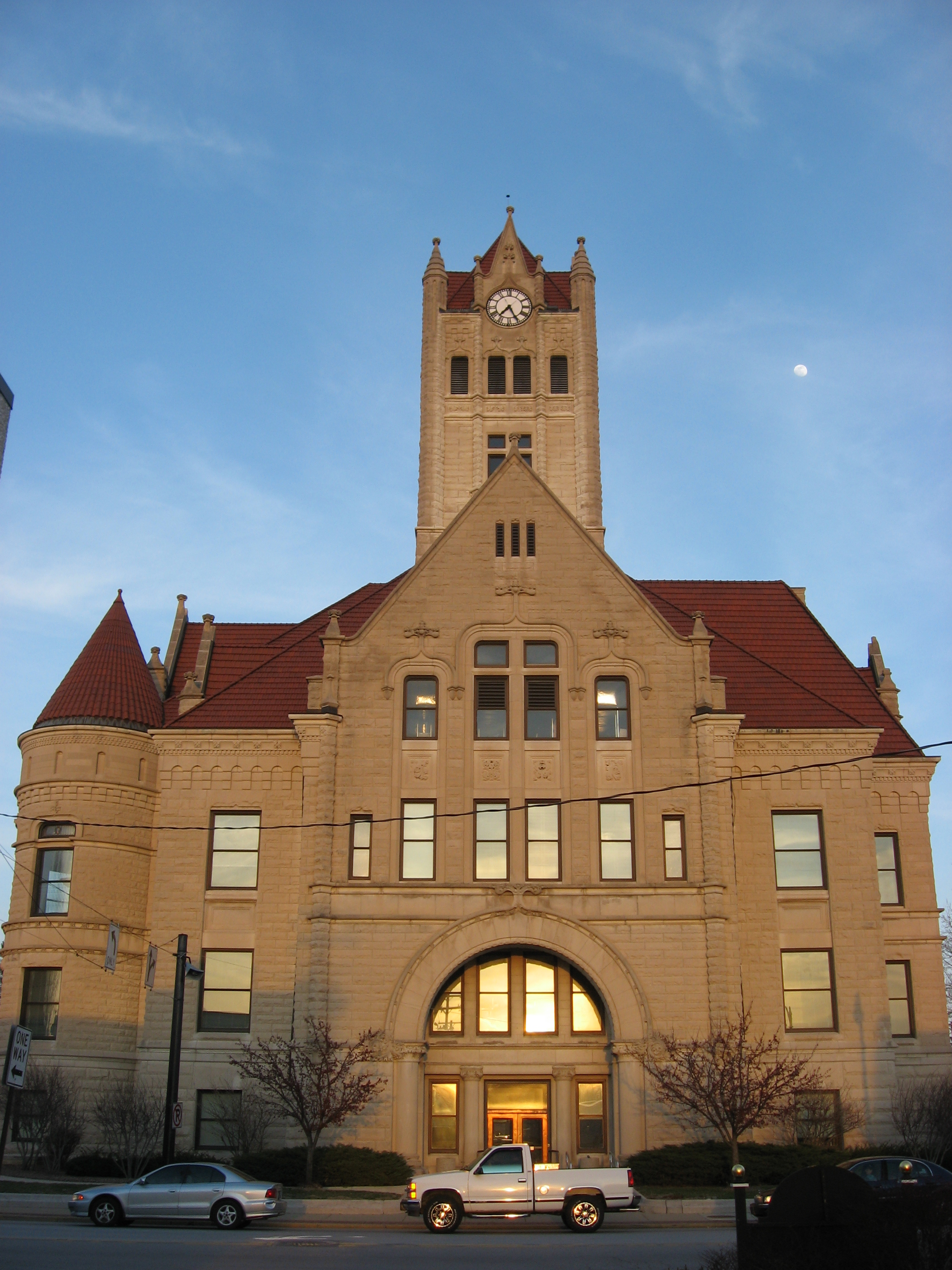 Western front of the Hancock County Courthouse, located on Courthouse Square in downtown Greenfield, Indiana, United States. Built in 1897, it is part of the Greenfield Courthouse Square Historic District, a historic district that is listed on the National Register of Historic Places.